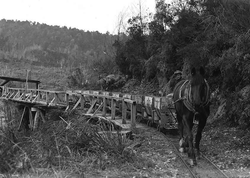 Blackwater Mine bush railway 1370-272-08 NZH